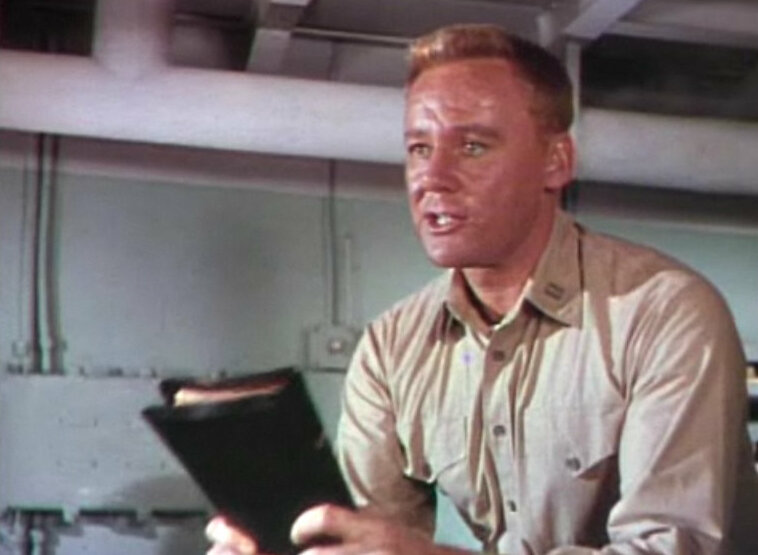 This screenshot shows Van Johnson in the trailer to the 1954 film The Caine Mutiny (film) (1954).